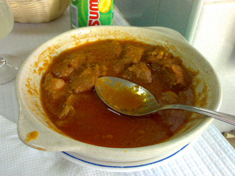 Vindalho (Vindaloo) served at Algés, Portugal.